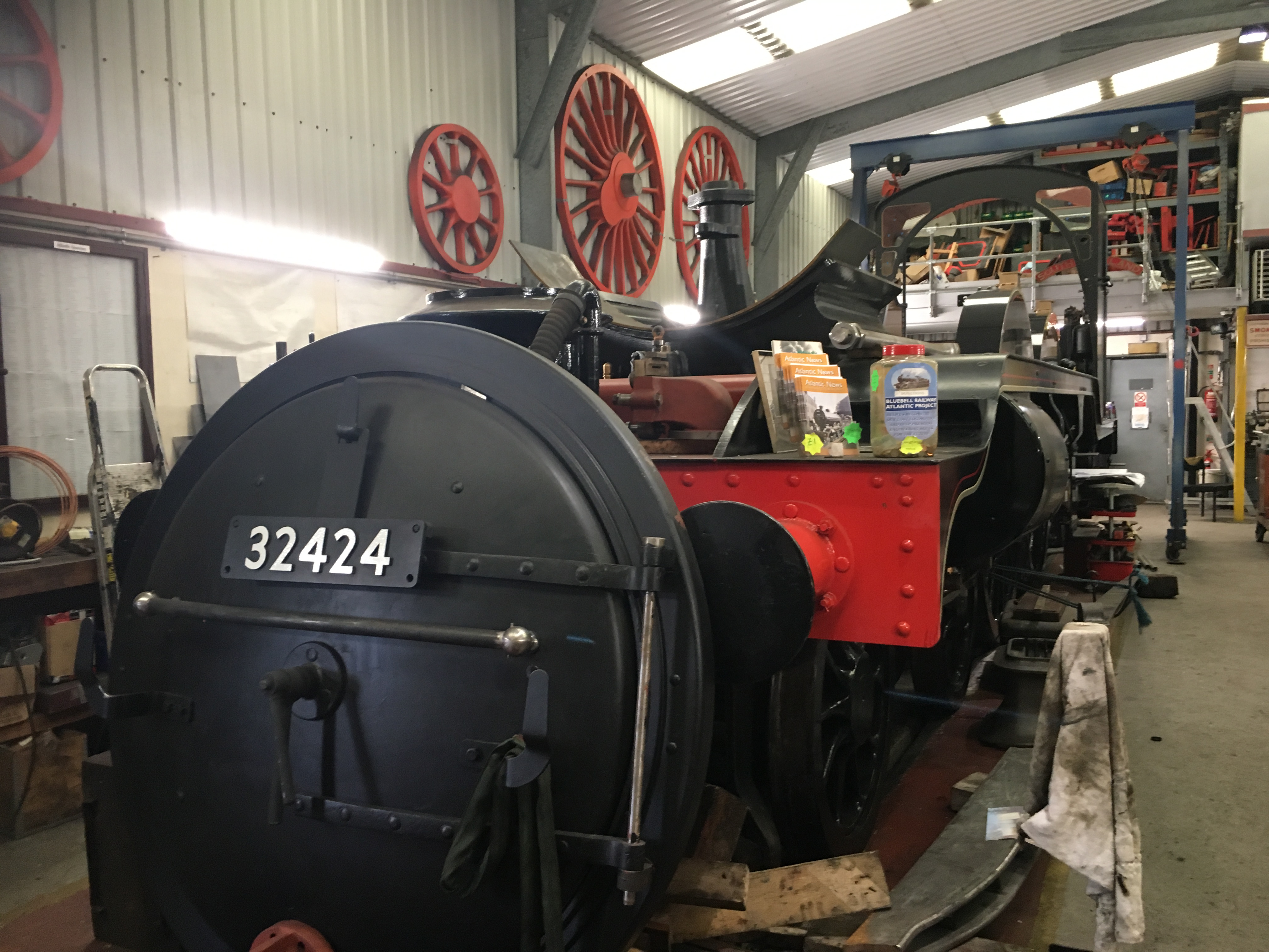 The LB&SCR replica locomotive in the Atlantic House on the Bluebell Railway at Sheffield Park.